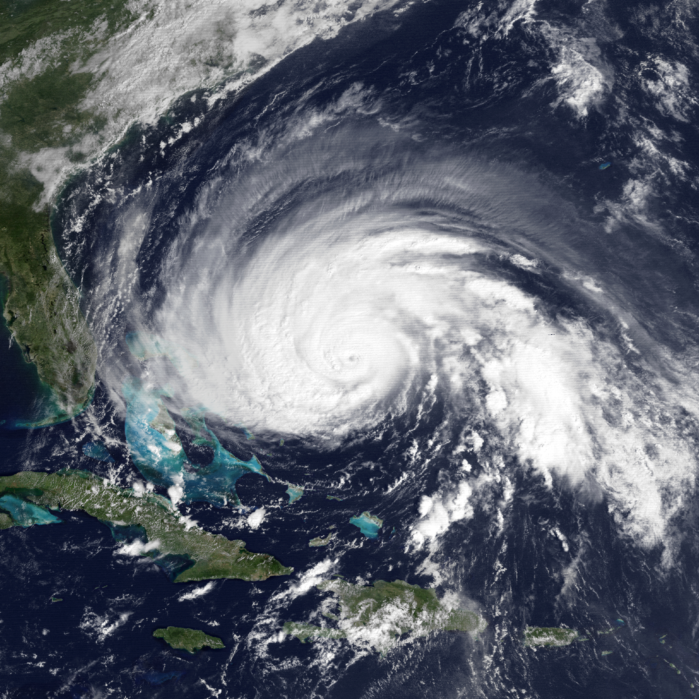 Hurricane Gloria as a weakening Category 4 hurricane following its peak intensity at 14:31 UTC on September 25, 1985.